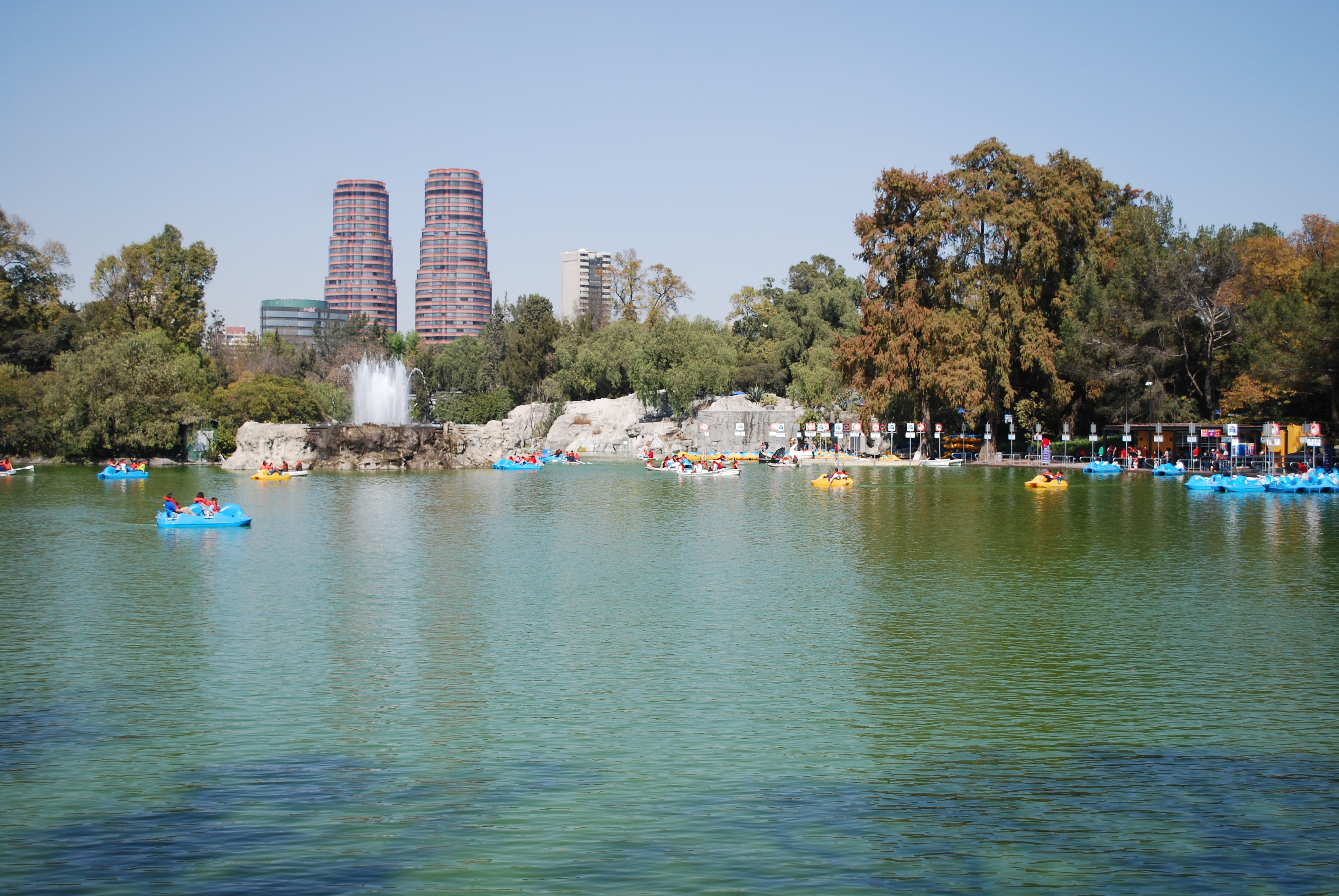 View of the Lago Menor in Chapultepec, Mexico City